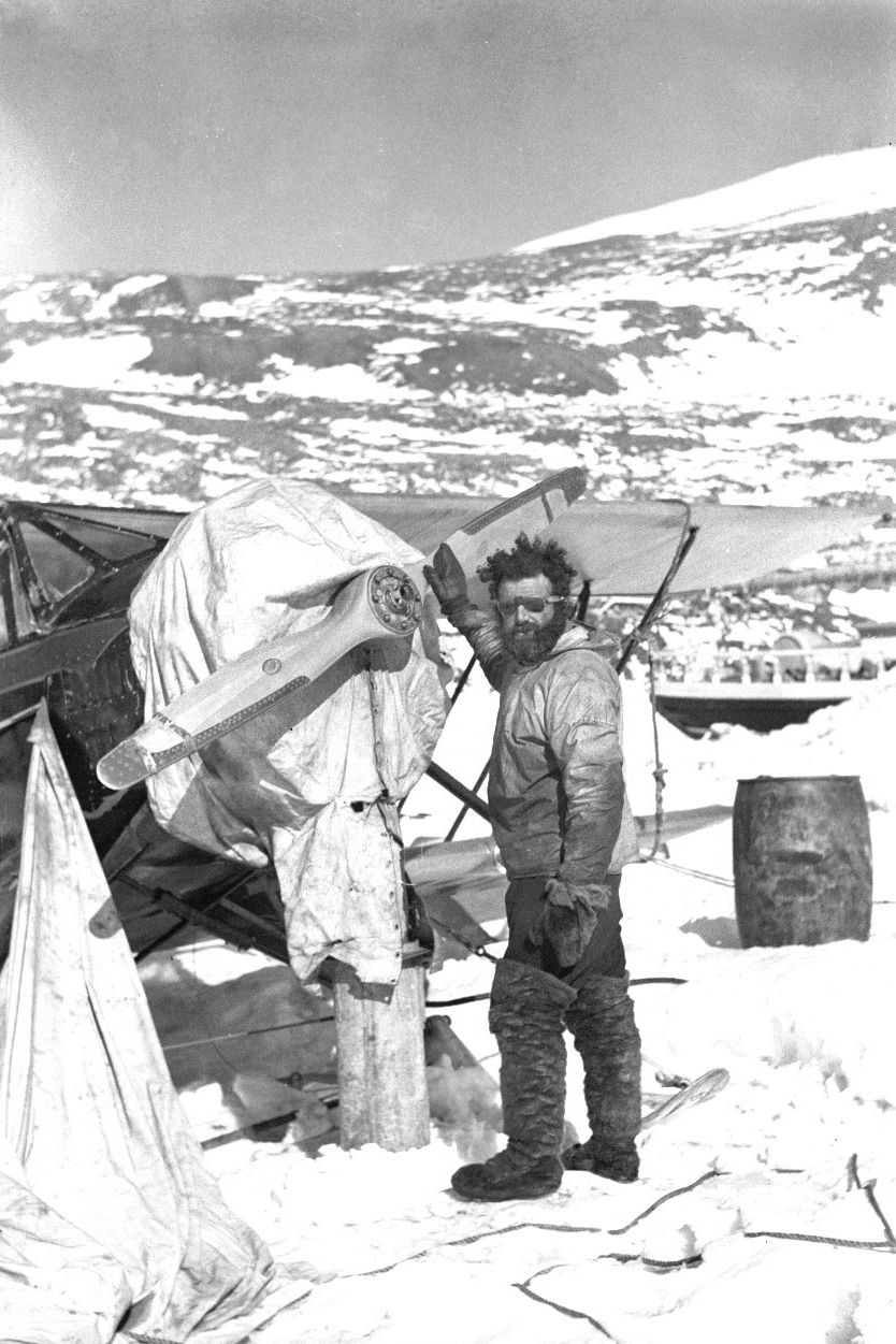 Ike Schlossback preparing to start the Waco